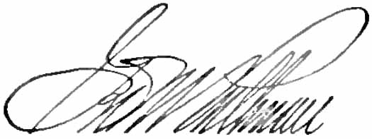 Signature of railroad entrepreneur George Pullman